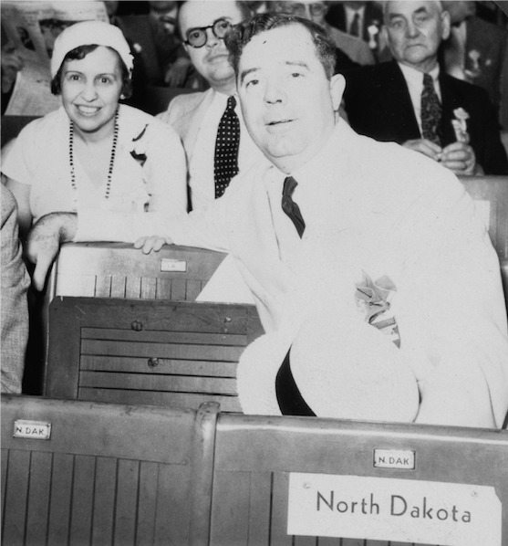 Senator Huey Long, of Louisiana